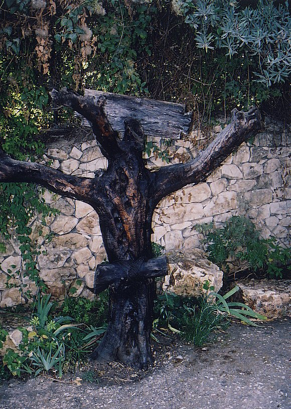 Tree-Cross usada como Crux simplex